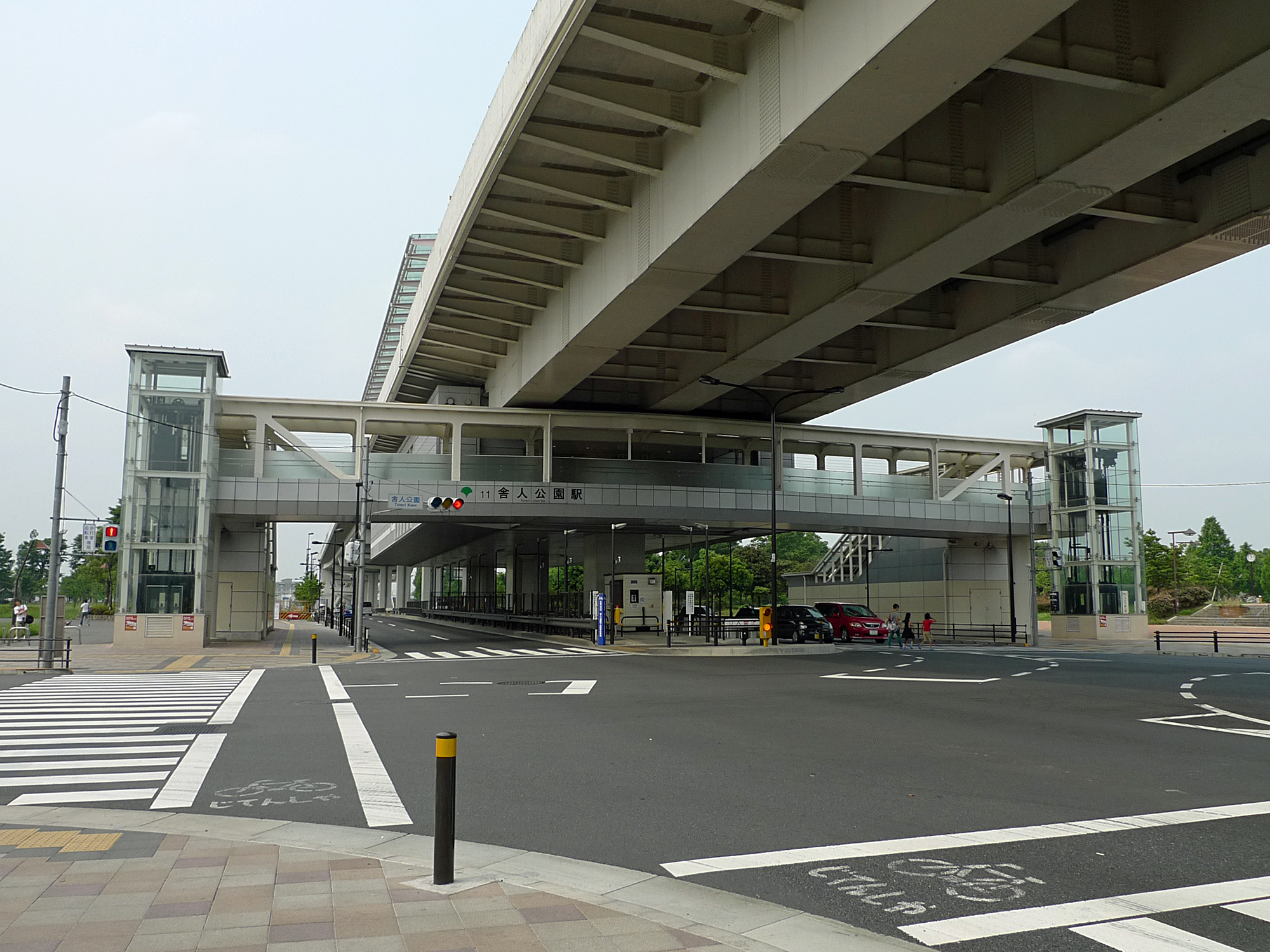 Toneri-koen Station,Nippori-Toneri Liner.